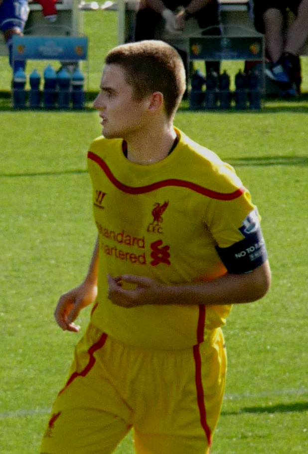 Jordan Rossiter of Liverpool and England captains Liverpool U19s during a UEFA Youth League match with Basel at Campus FC Basel, 1st October 2014.